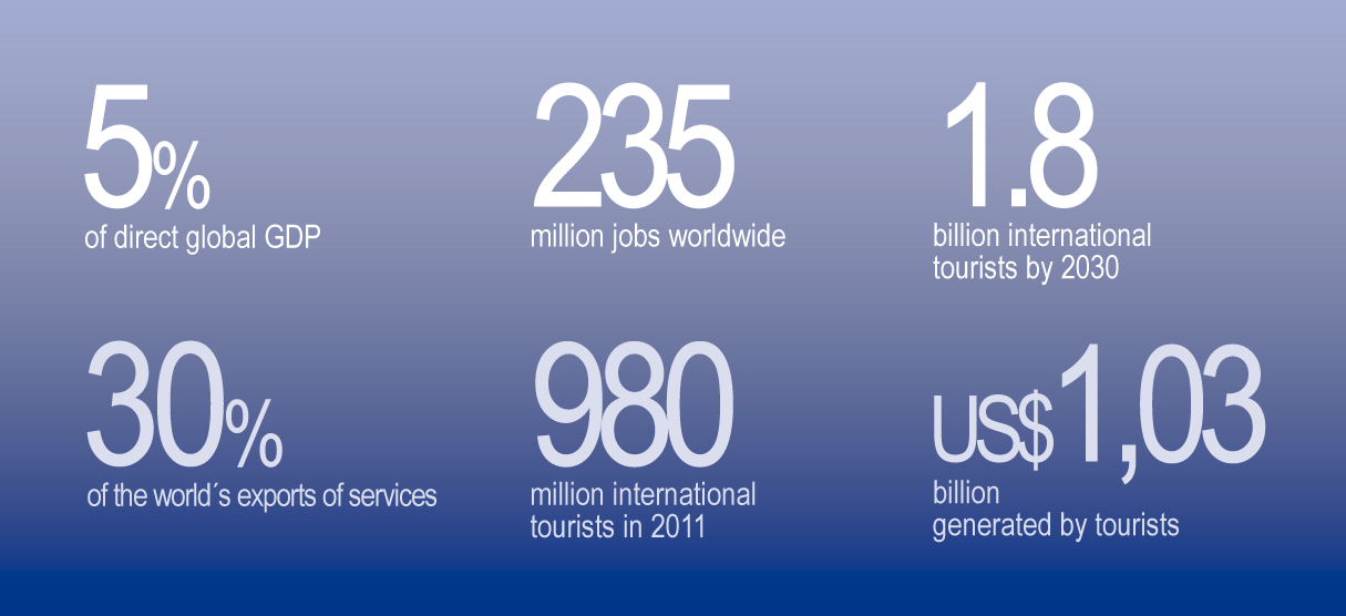 Key Numbers